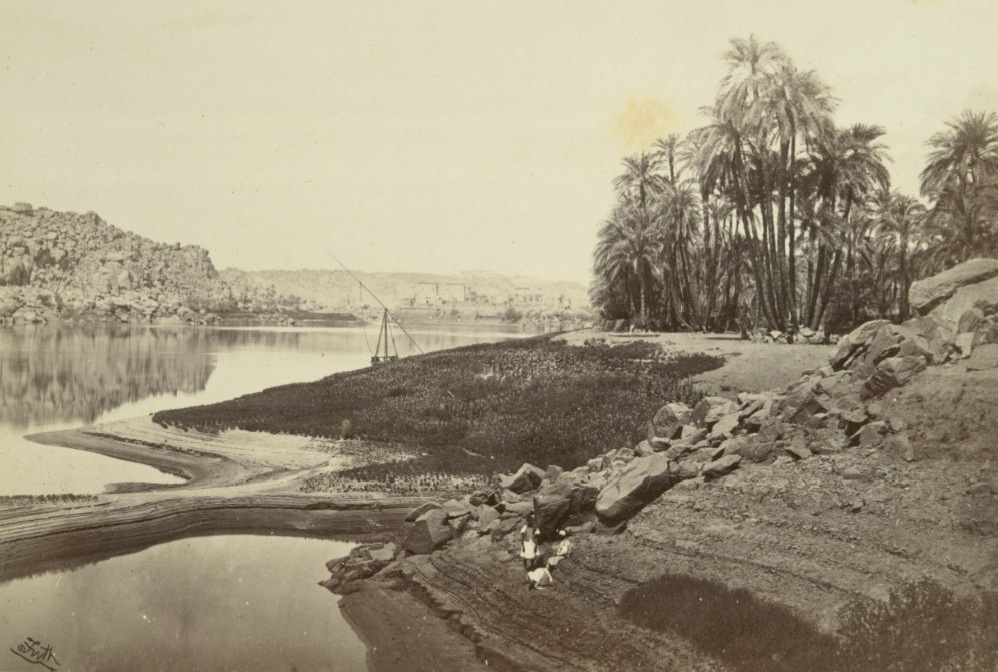 Philæ, from the south